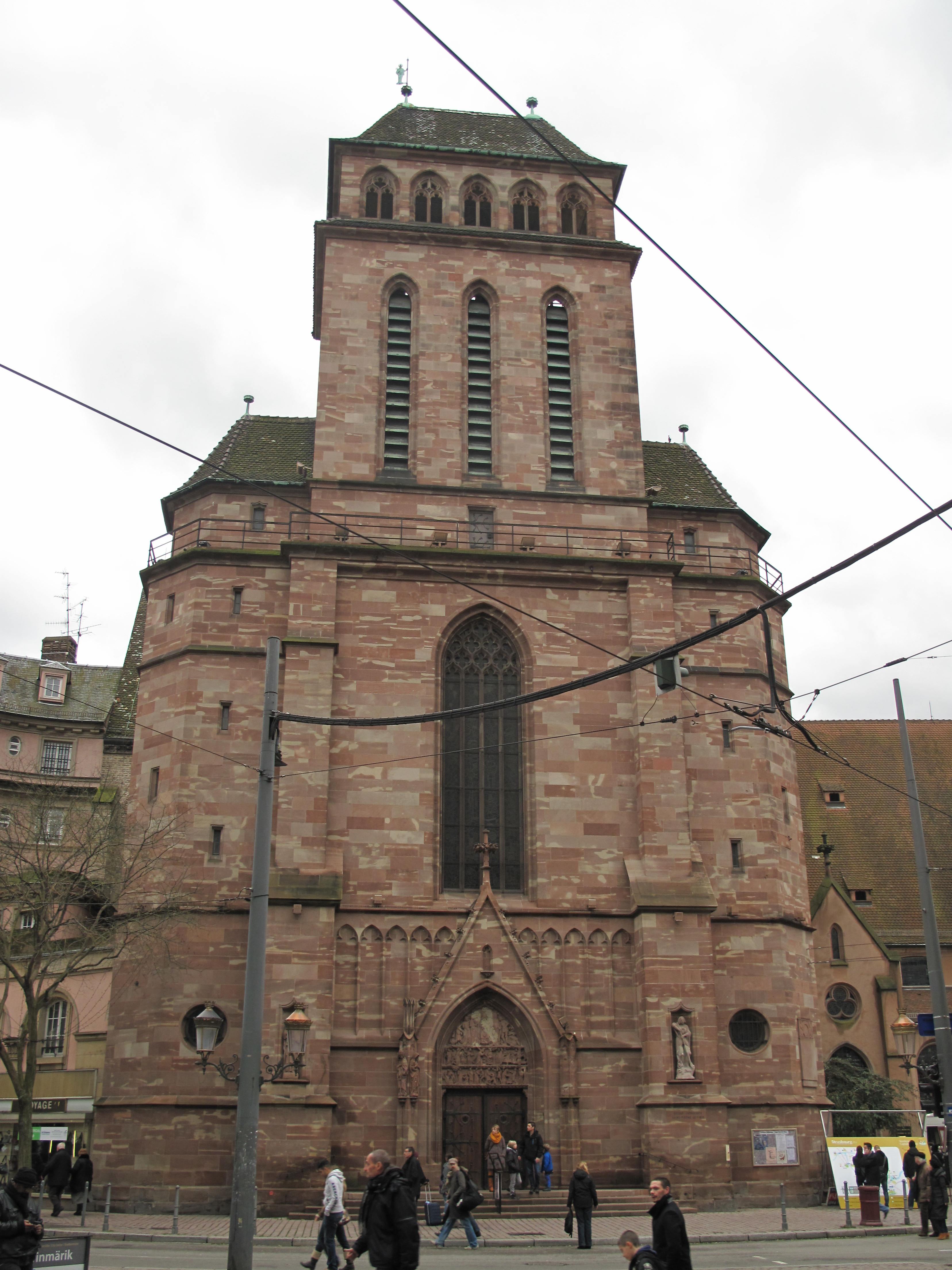 The facade of the church Saint-Pierre-le-Vieux by day in Strasbourg, (Bas-Rhin, France).